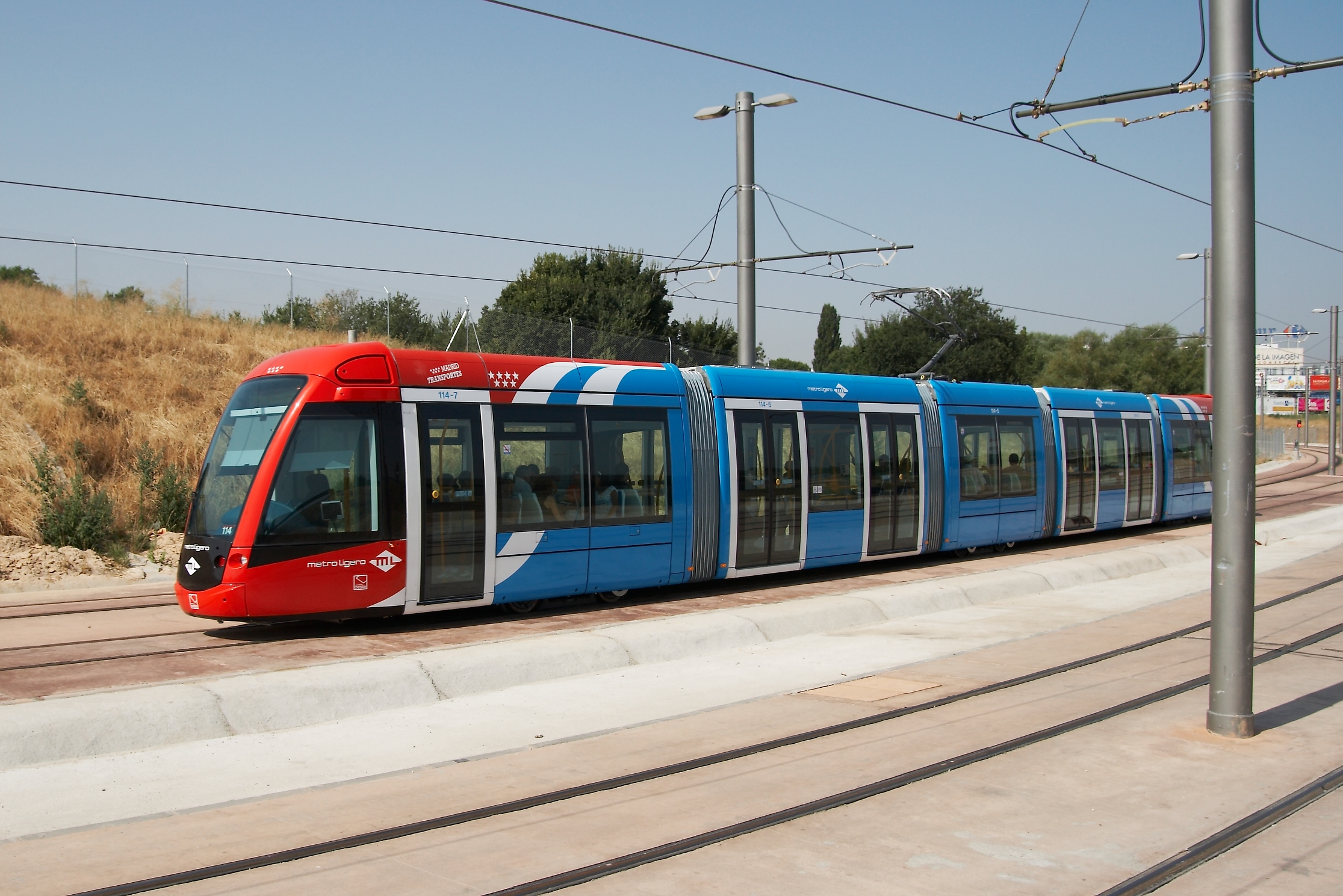 Madrid's light rail, near Colonia Jardín station.